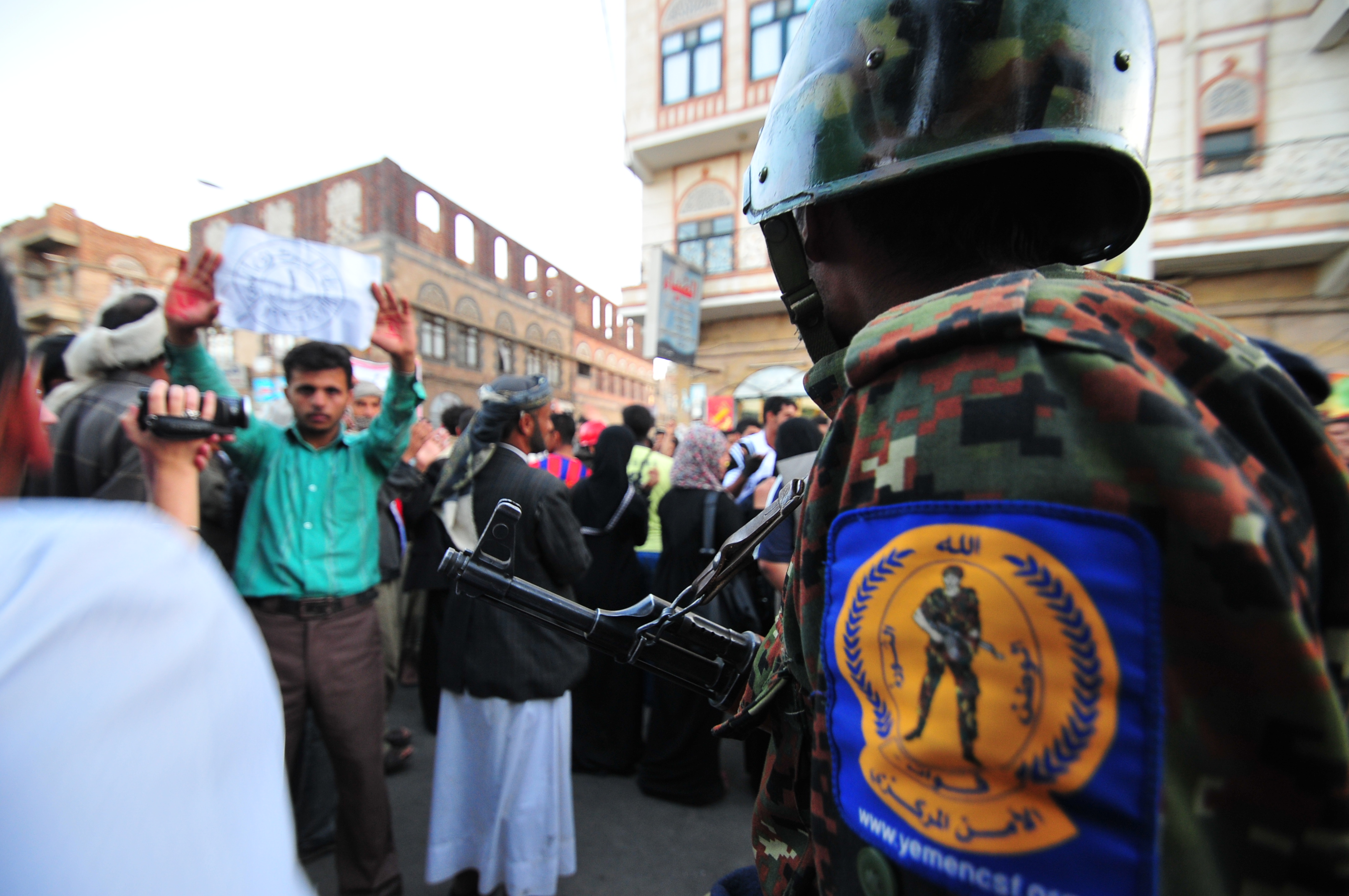 Protests in Yemena and a soldier who stands at these protests